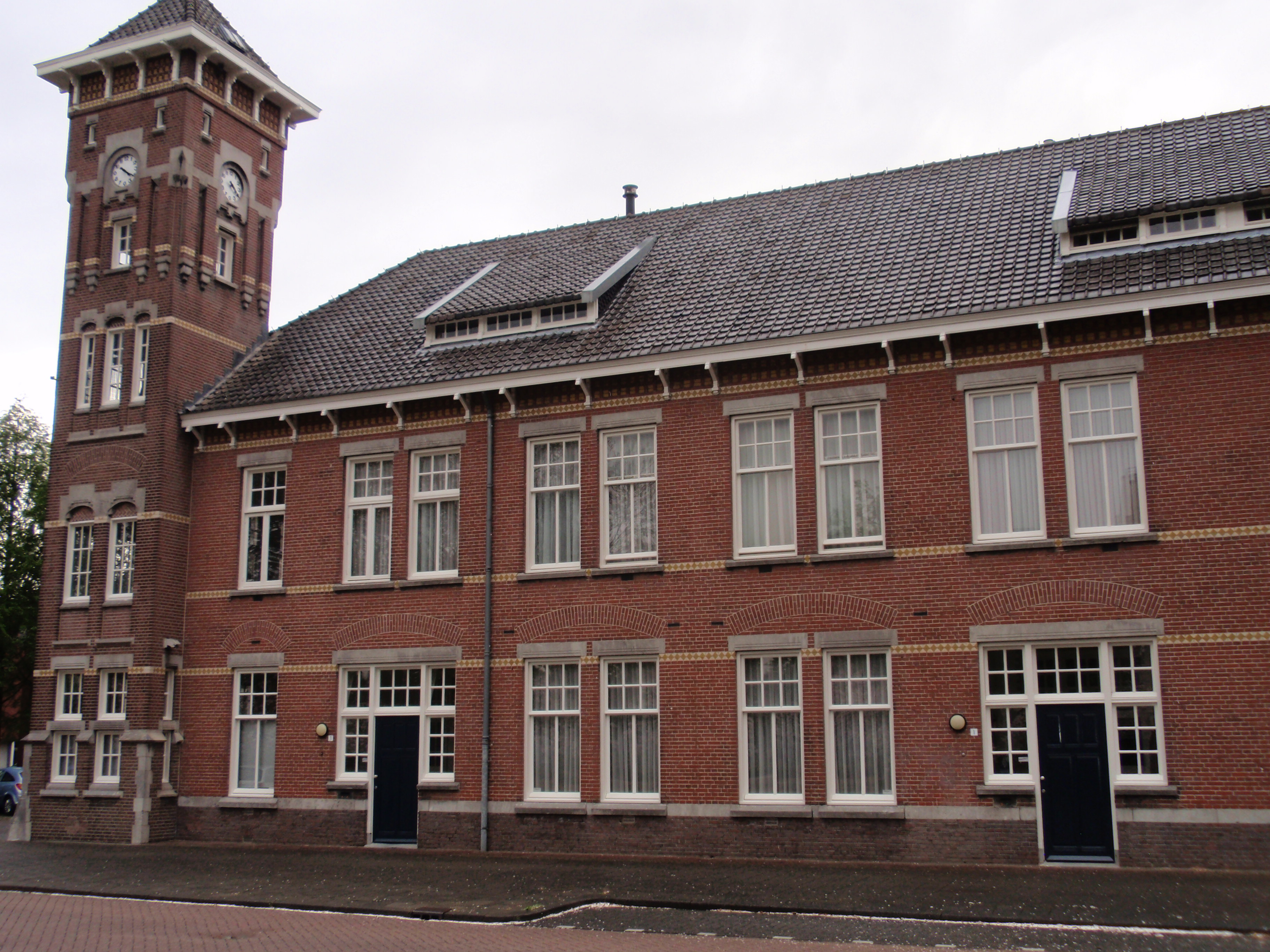 Kromhout Barracks Tilburg